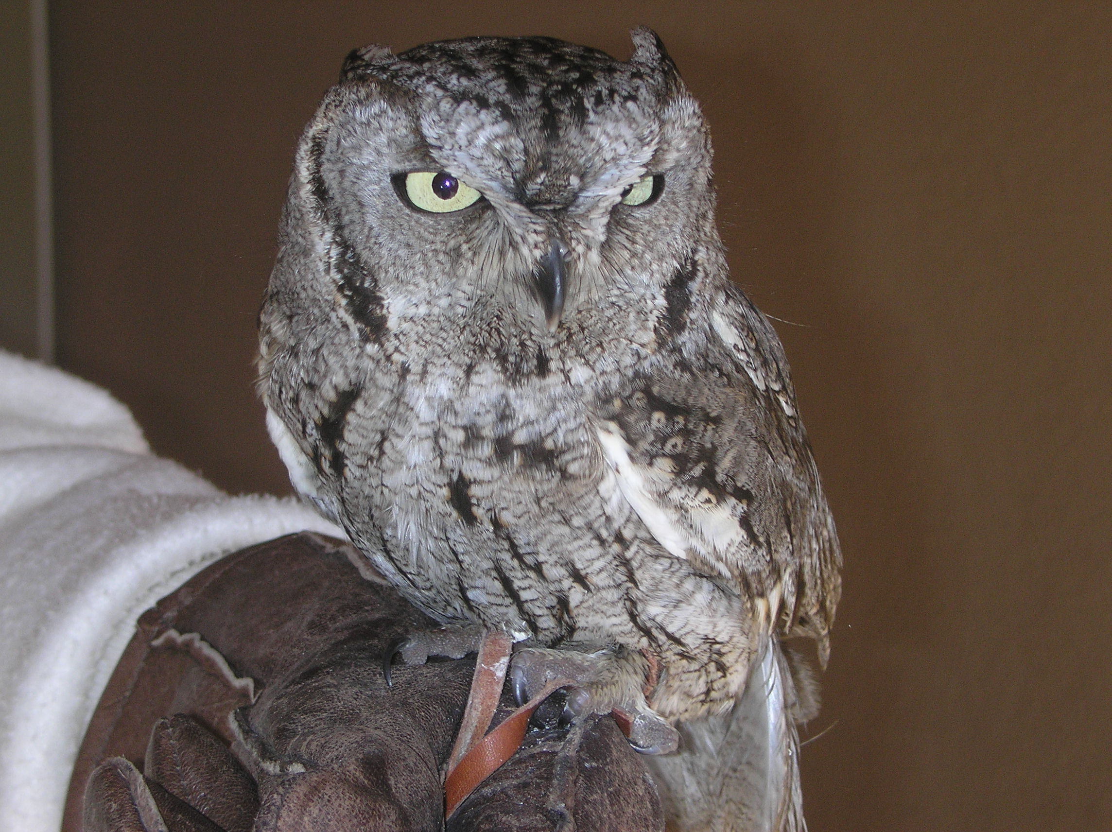 Western Screech Owl (Megascops kennicottii)